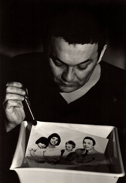 Self portrait in the darkroom - Mons - Belgium.